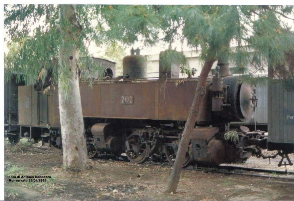 Locomotiva n°10 a Monserrato, 1989